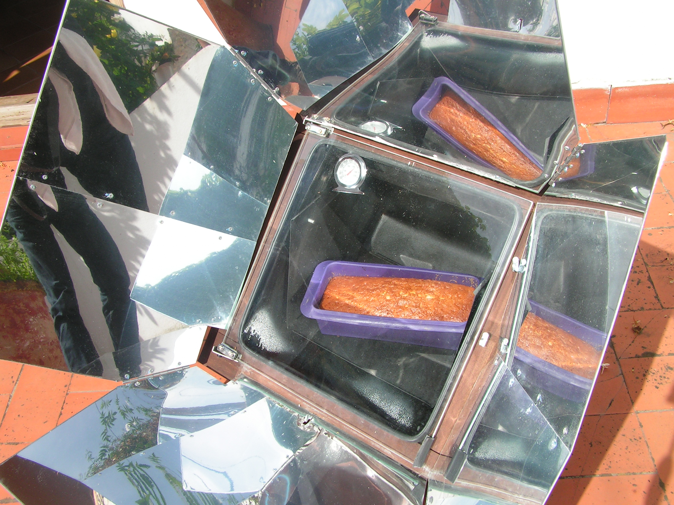 Solar cake in a solar oven (GSO: Global Sun Oven) made in developing countries and USA: more information on